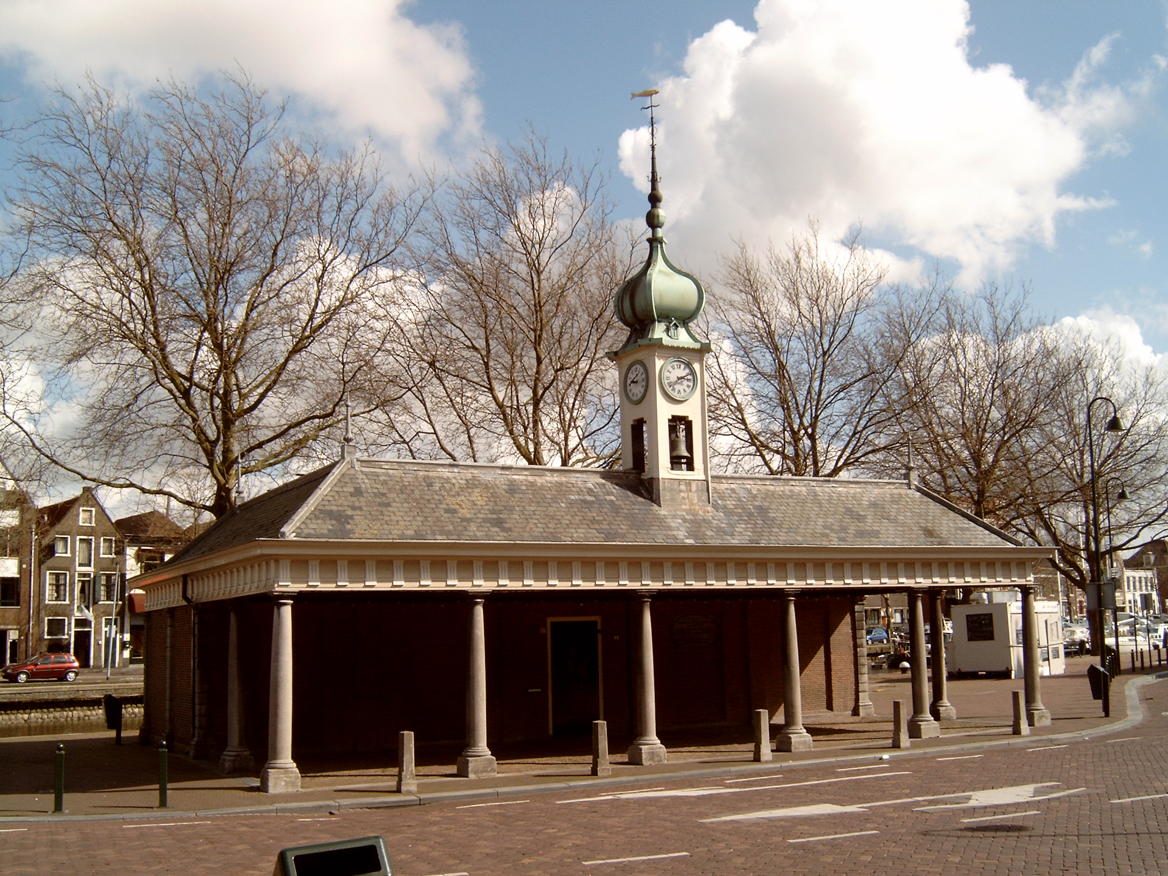 Vlaardingen, the Visbank